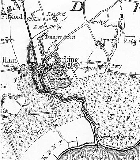 Map of Barking, 1777.